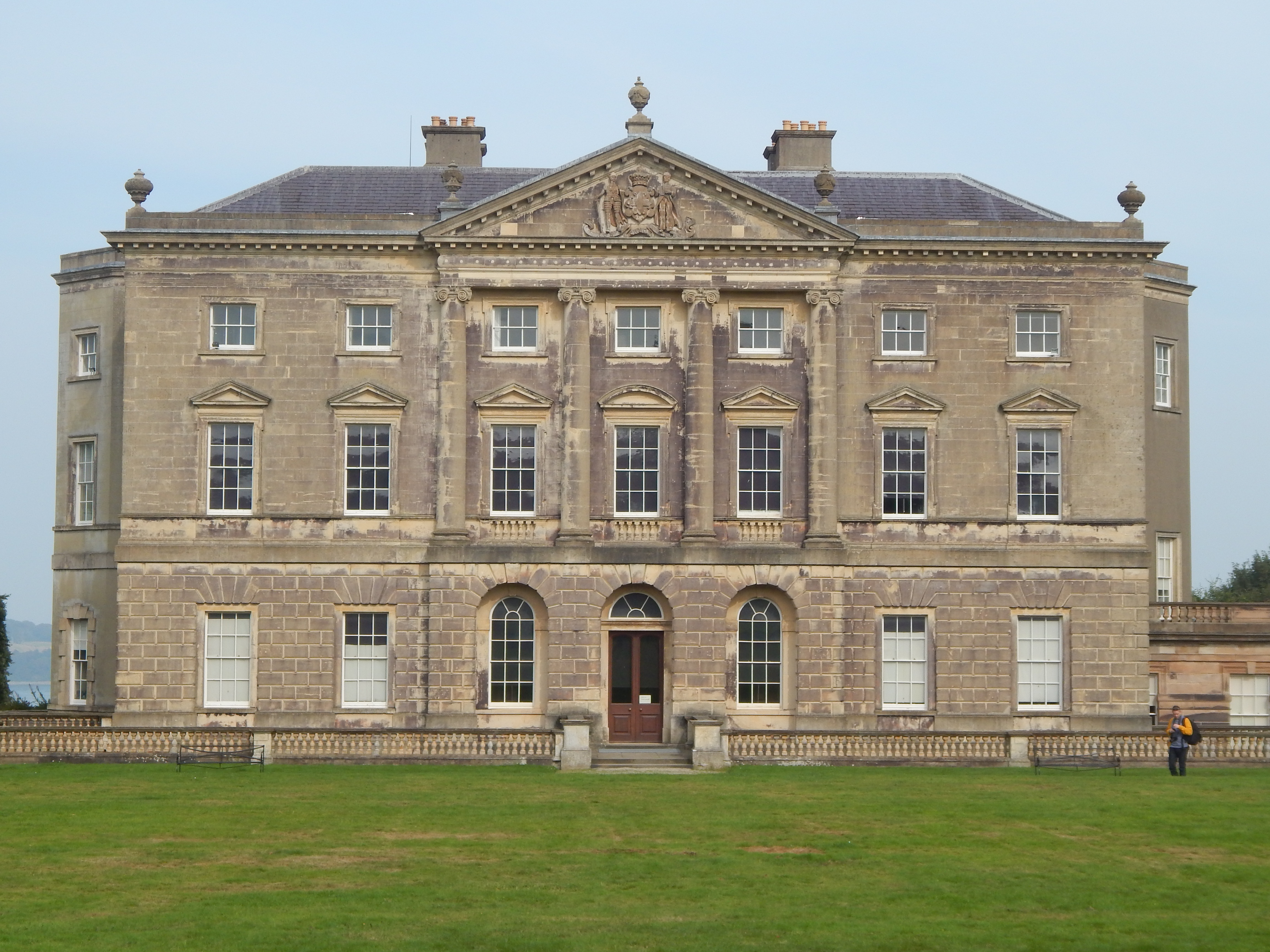 Castle Ward has been the home of the Ward family since ca. 1570. South-west facade.